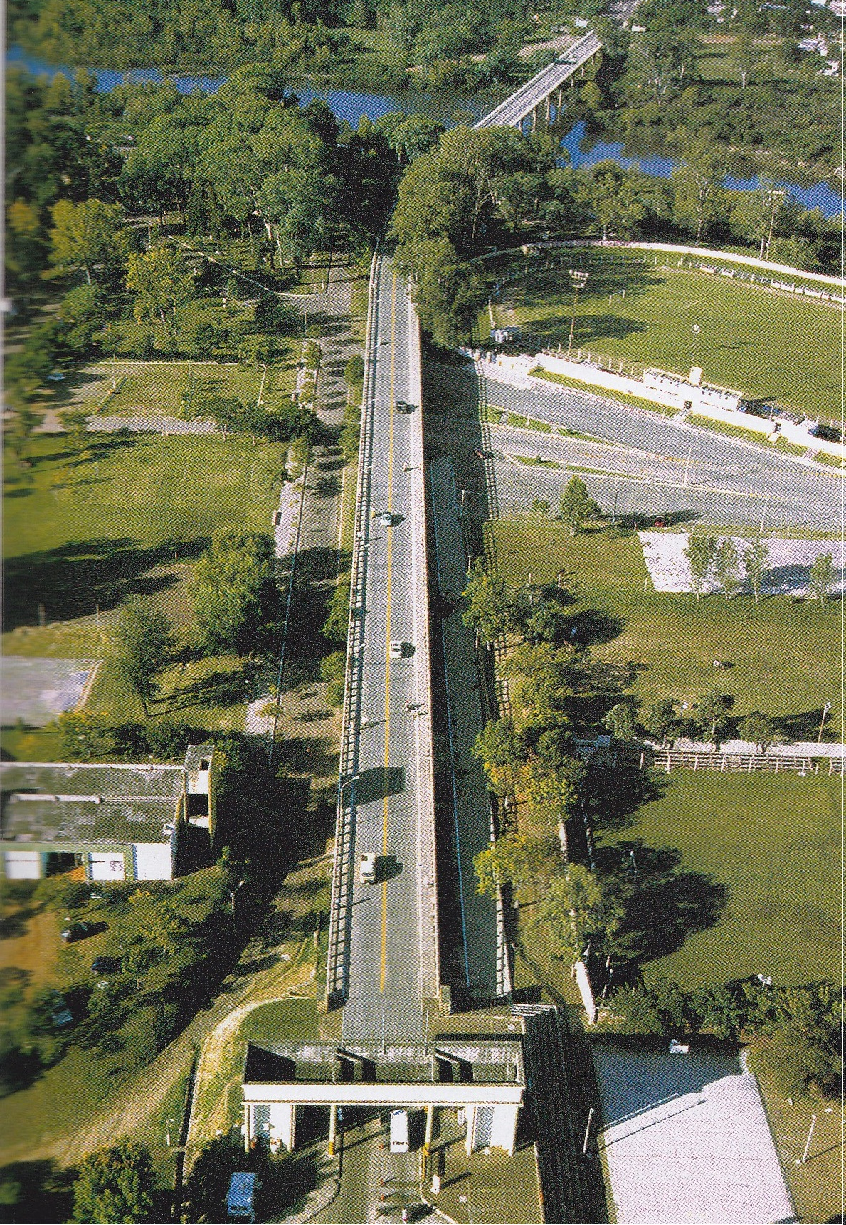 Puente Concordia